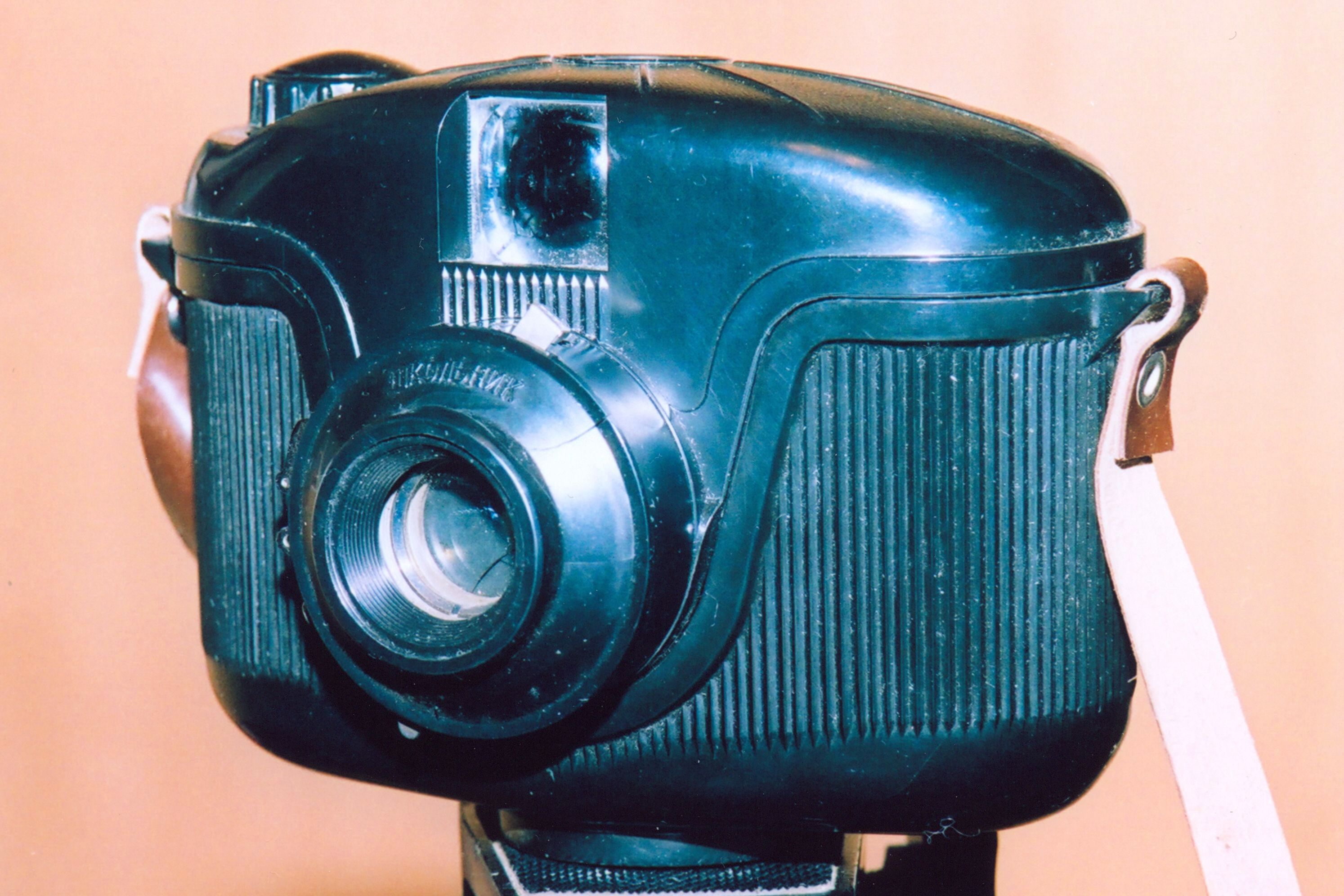 Shkolnik (camera)